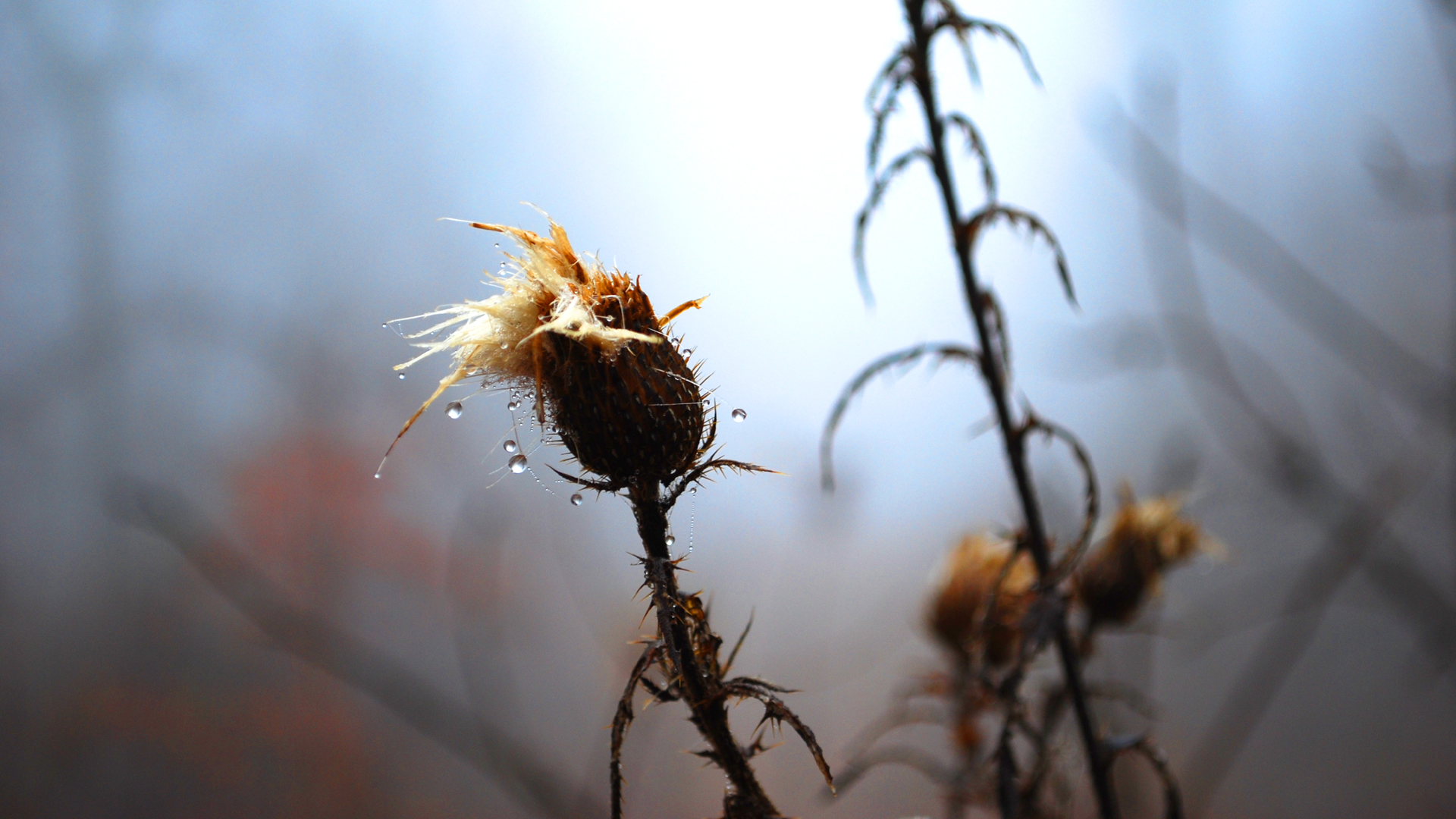 Field thistle in autumn taken near Scotland, Arkansas, U.S.A.